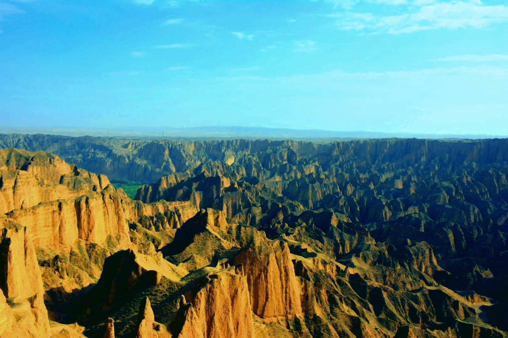 Yellow river stone forest, Jingtai County, Baiyin City, Gansu Province, China